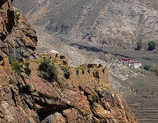 The Temple of the Sixteen Arhats